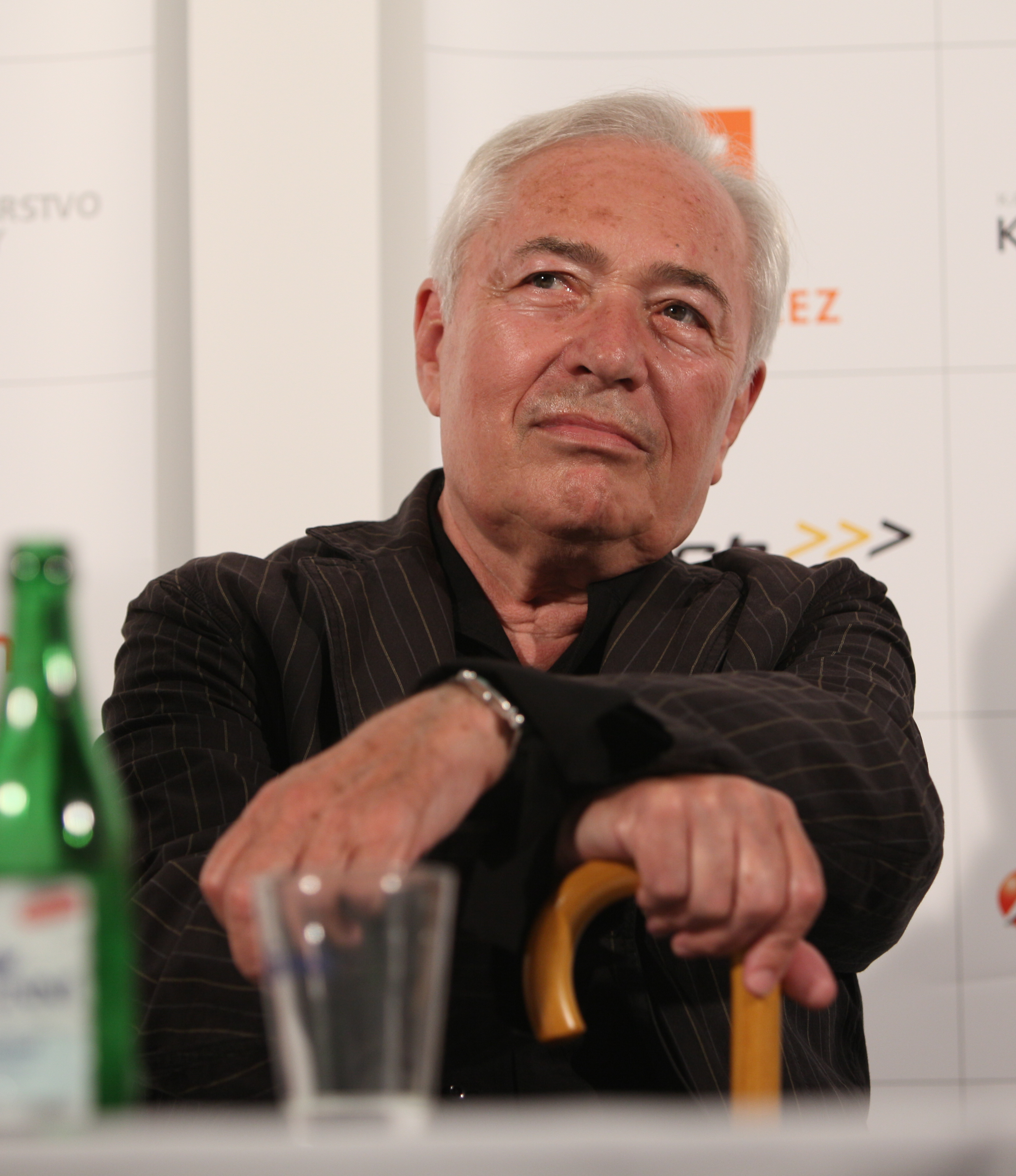 Czech conductor Libor Pešek at 44th Karlovy Vary International Film Festival